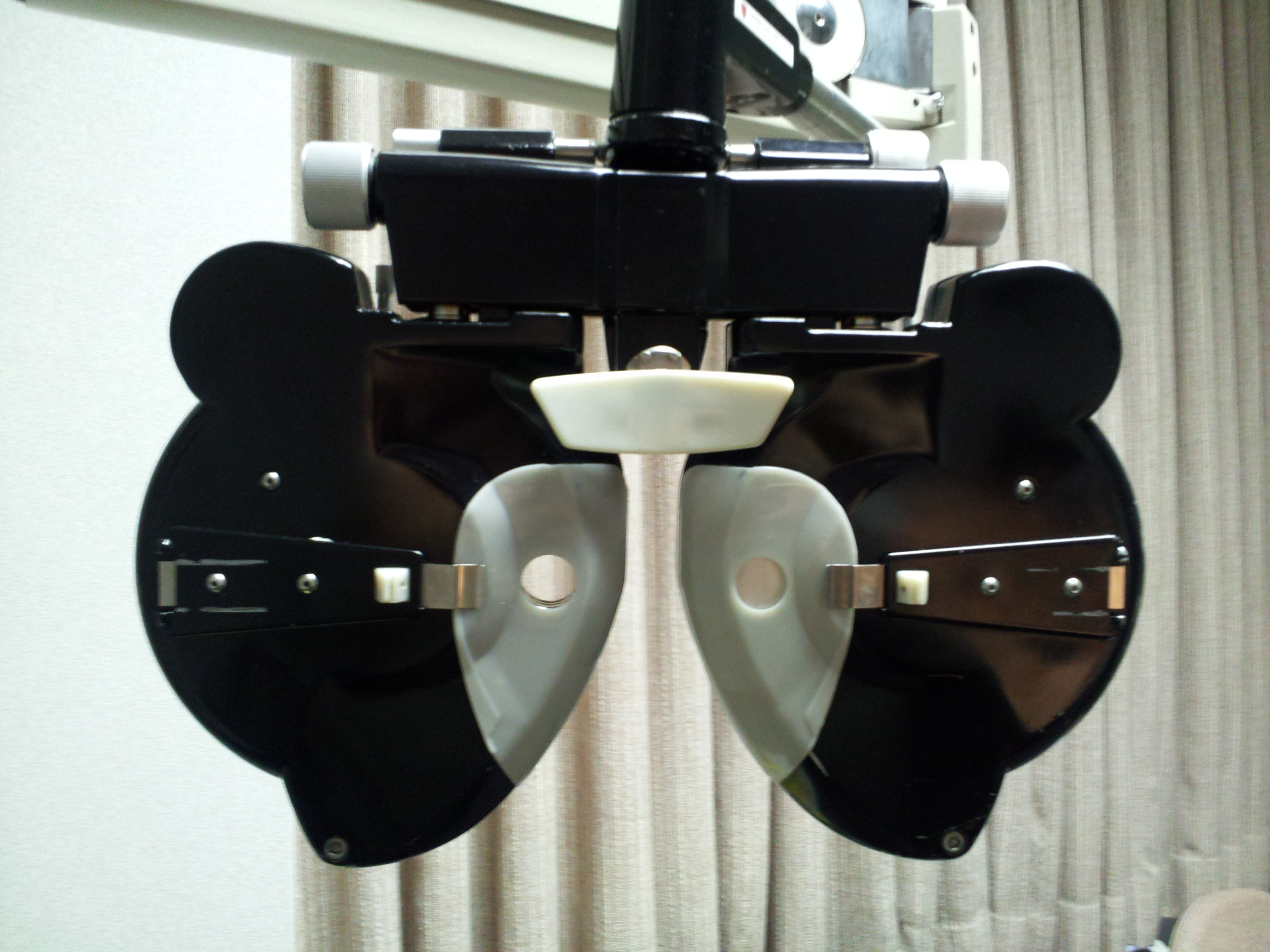 Phoropter at Rodman & Engelstein office in Silver Spring, Maryland. This is the side that goes against the patient's face.